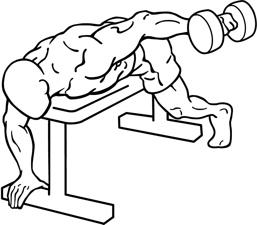 an exercise of shoulder